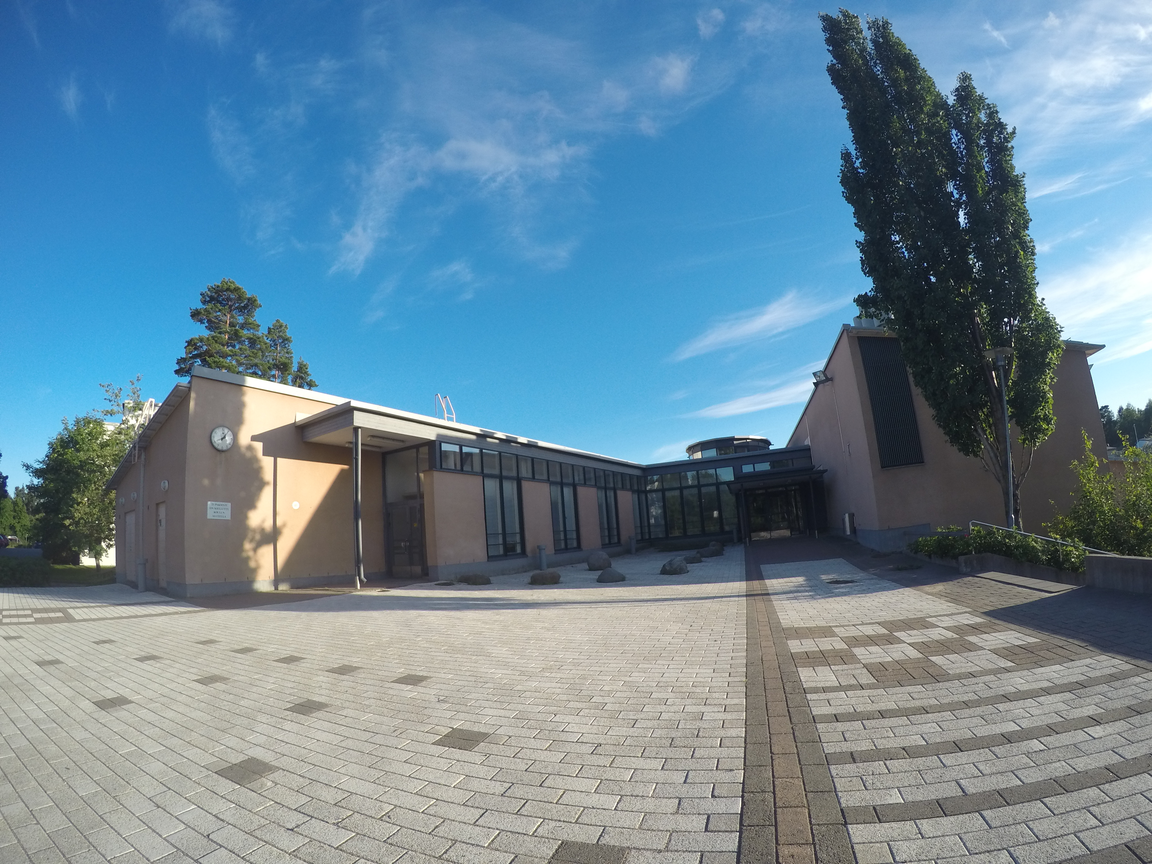 Nallin sivukoulu is a school in Kivikko, Helsinki, Finland.